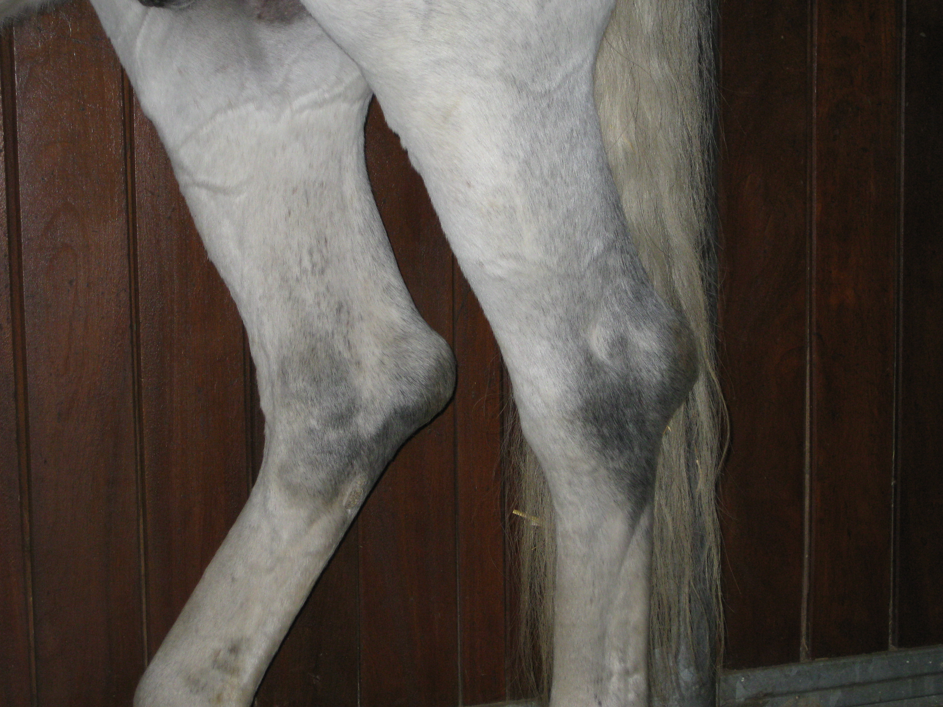 Own self made picture